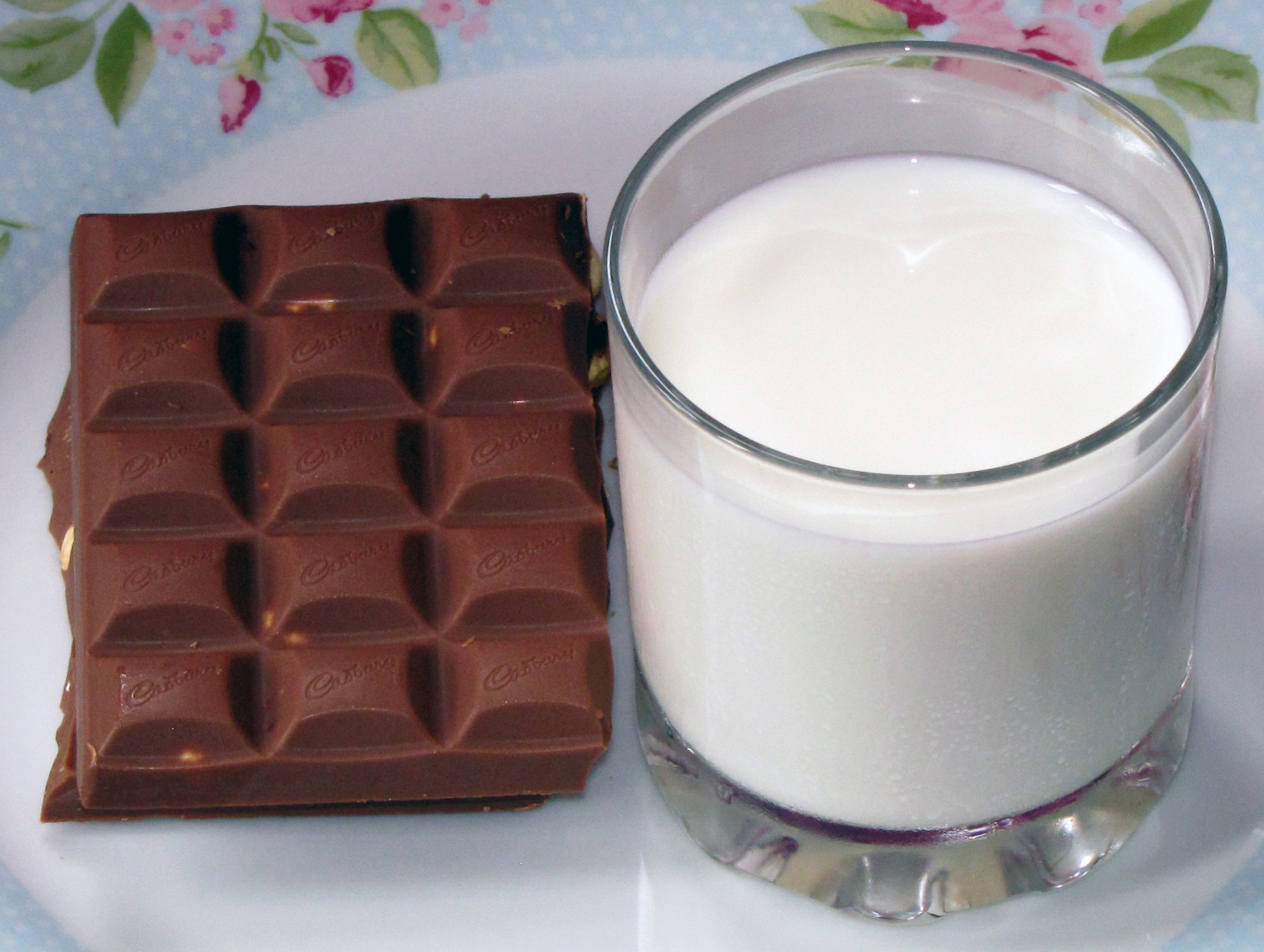 A piece of Cadbury hazelnut chocolate and a glass of milk